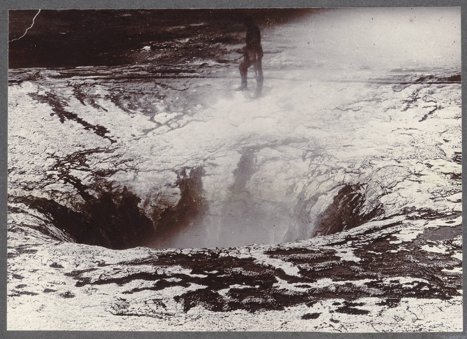 Collection: Icelandic and Faroese Photographs of Frederick W.W. Howell, Cornell University Library Title: The tube of Geysir after an eruption. Date: ca. 1900 Place: Geysir (Haukadalur, Iceland : Geyser) Medium: collodion print Repository: Fiske Icelandic Collection, Rare & Manuscript Collections, Cornell University Library Accession: 1923.2.24 Description: The tube of Geysir after an eruption. Diameter of basin 56 feet. Diameter of tube 16 [feet]. URL: Persistent URI: There are no known U.S. copyright restrictions on this image. The digital file is owned by the Cornell Univeristy Library which is making it freely available with the request that, when possible, the Library be credited as its source. We had some help with the geocoding from Web Services by Yahoo!